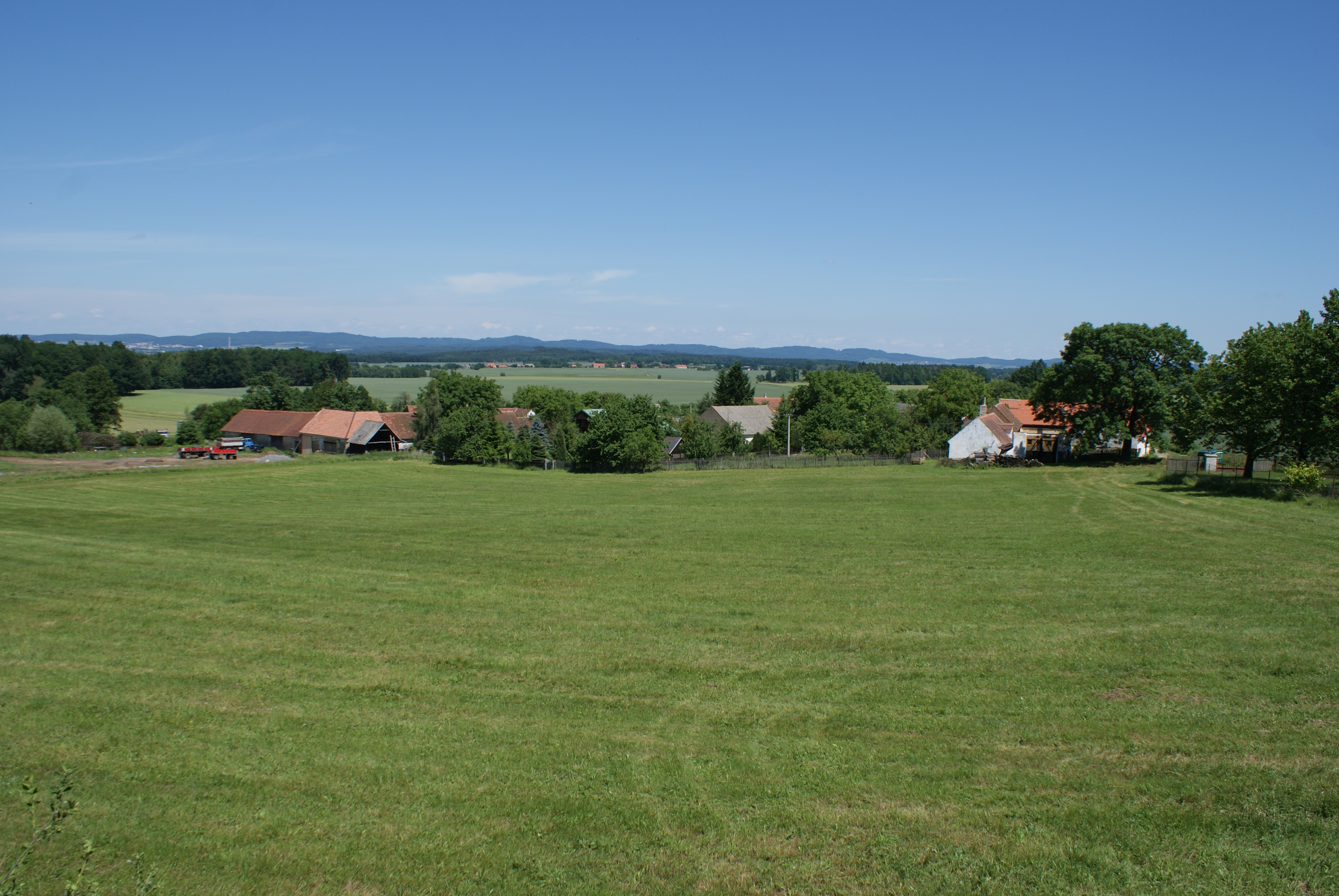 Sedliště, a village in Strakonice district, Czech Republic, view from the southtwest.